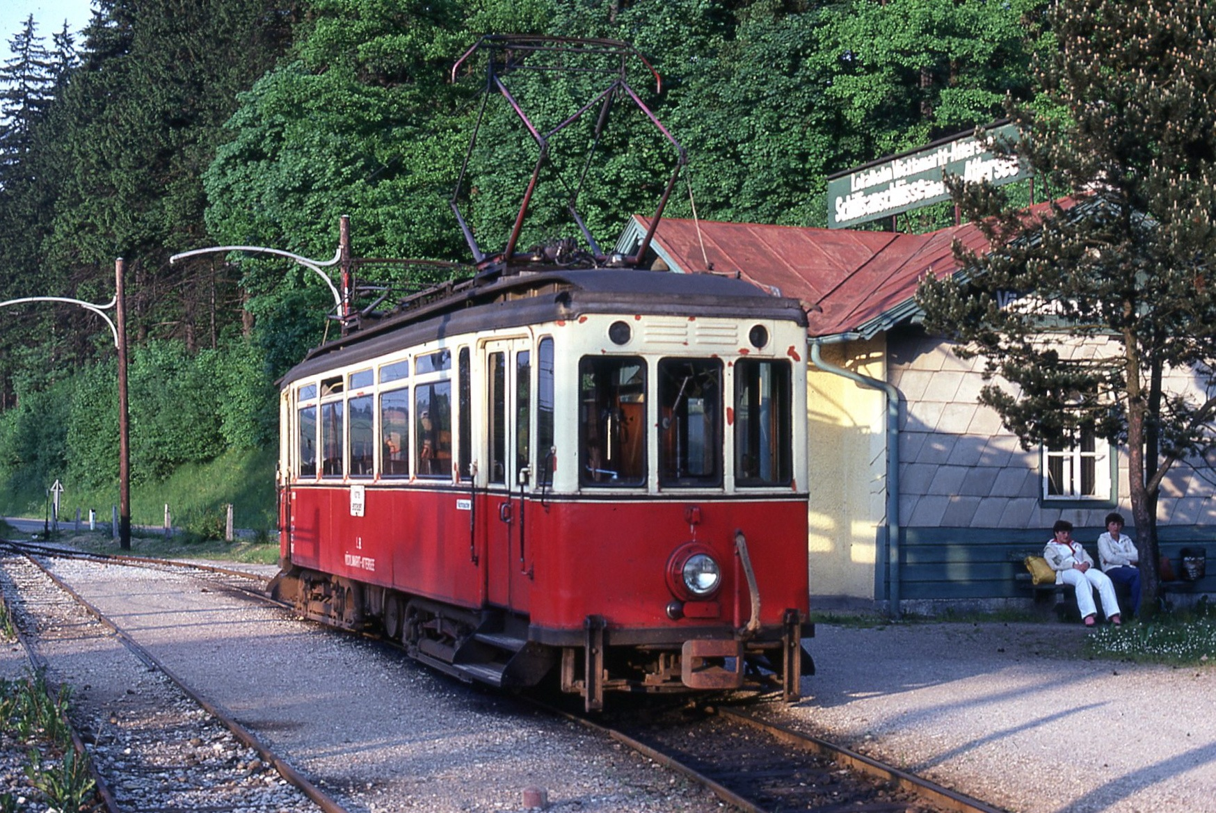 Attergaubahn railcar at Vöcklamarkt terminus.